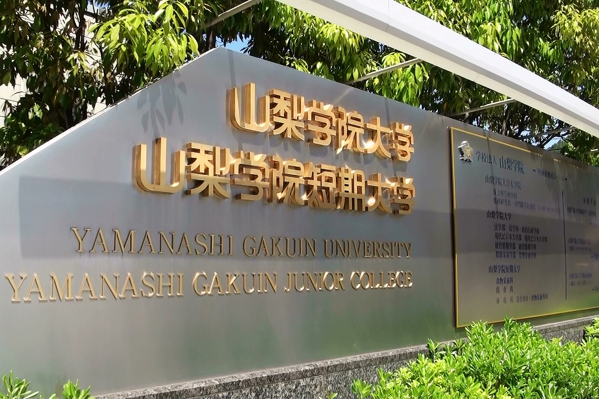 Yamanashi Gakuin University nameplate